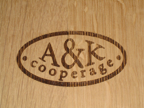 Barrel company A&K Cooperage, half owned by Silver Oak Cellars